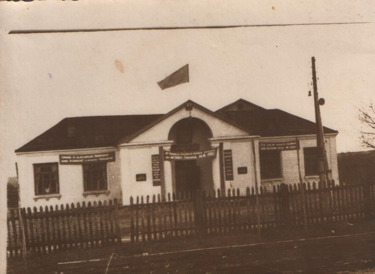 Сільський будинок культури (60 роки ХХ ст.)